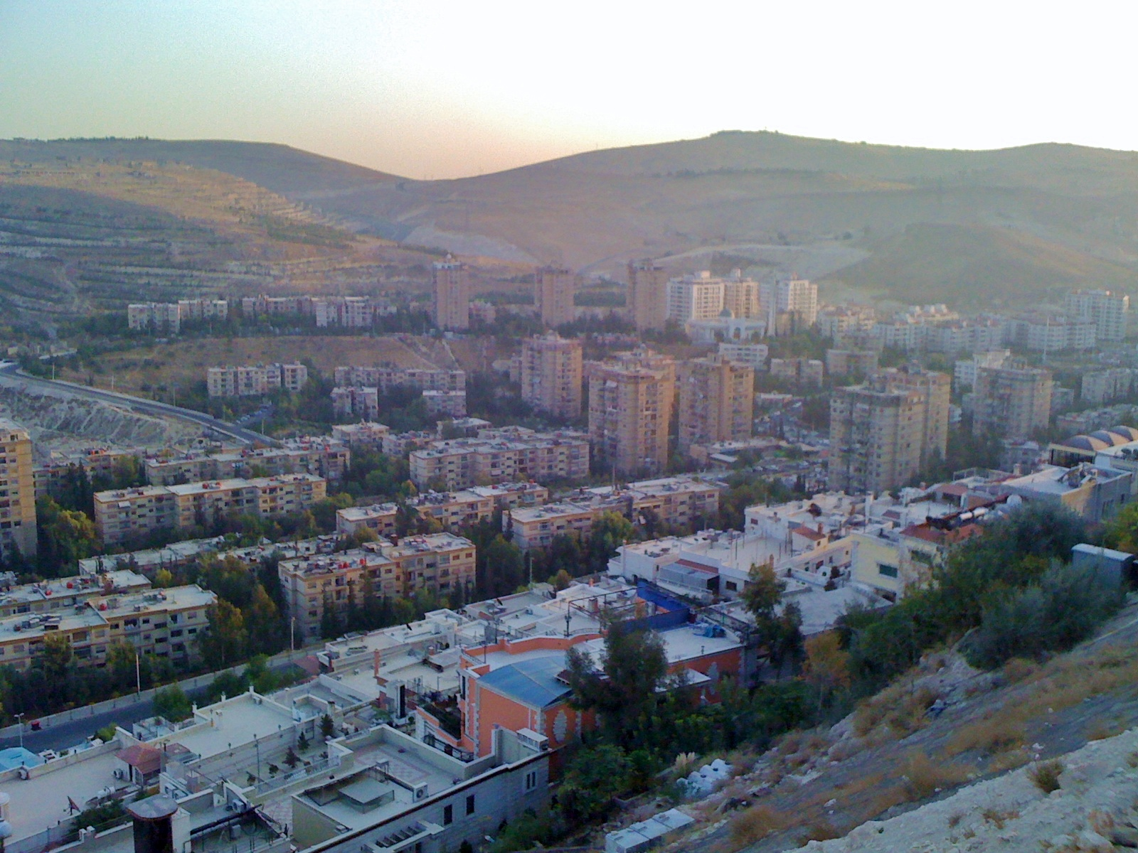 Project Dummar top view